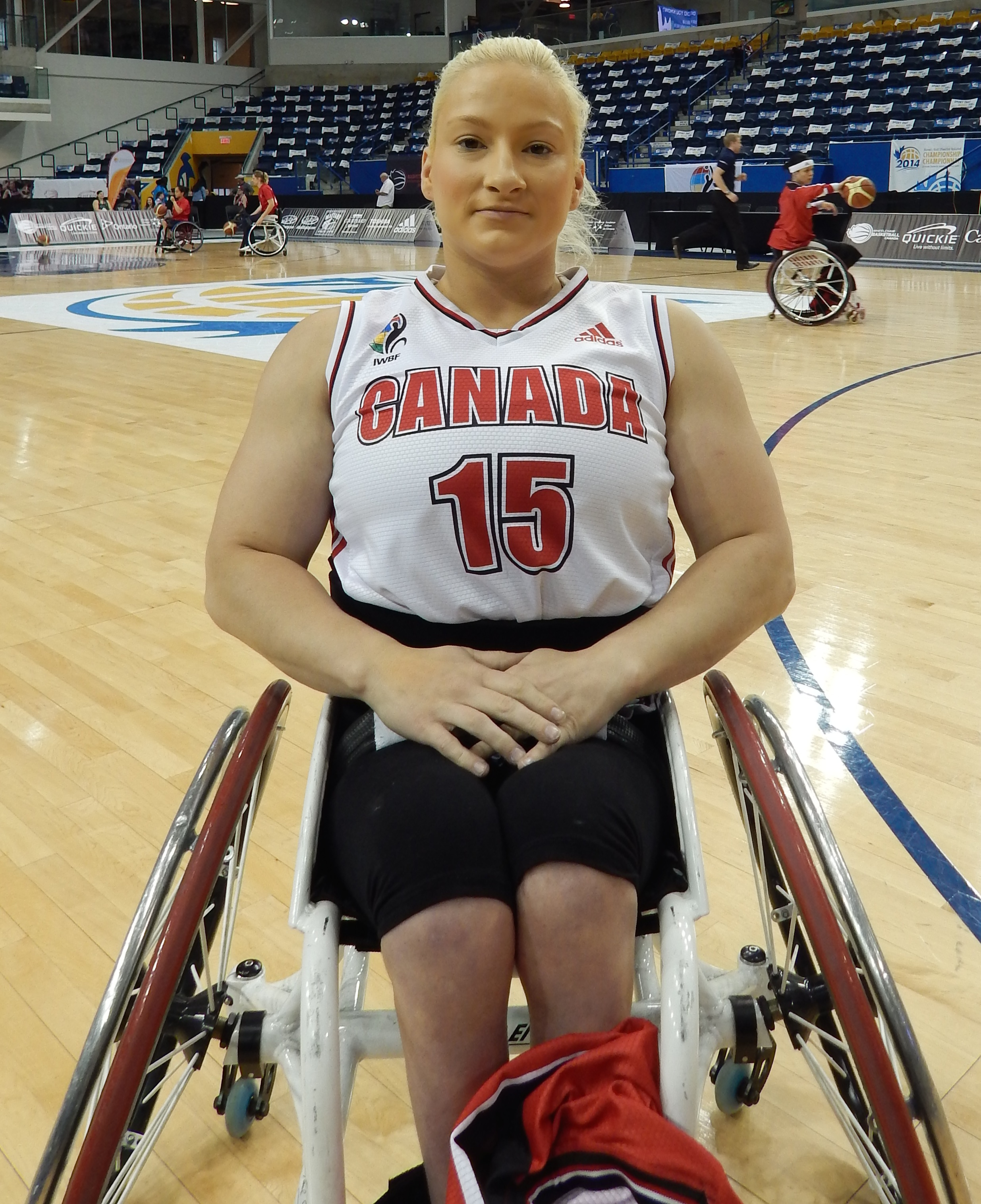 Team Canada - No 15 - Melanie Hawtin